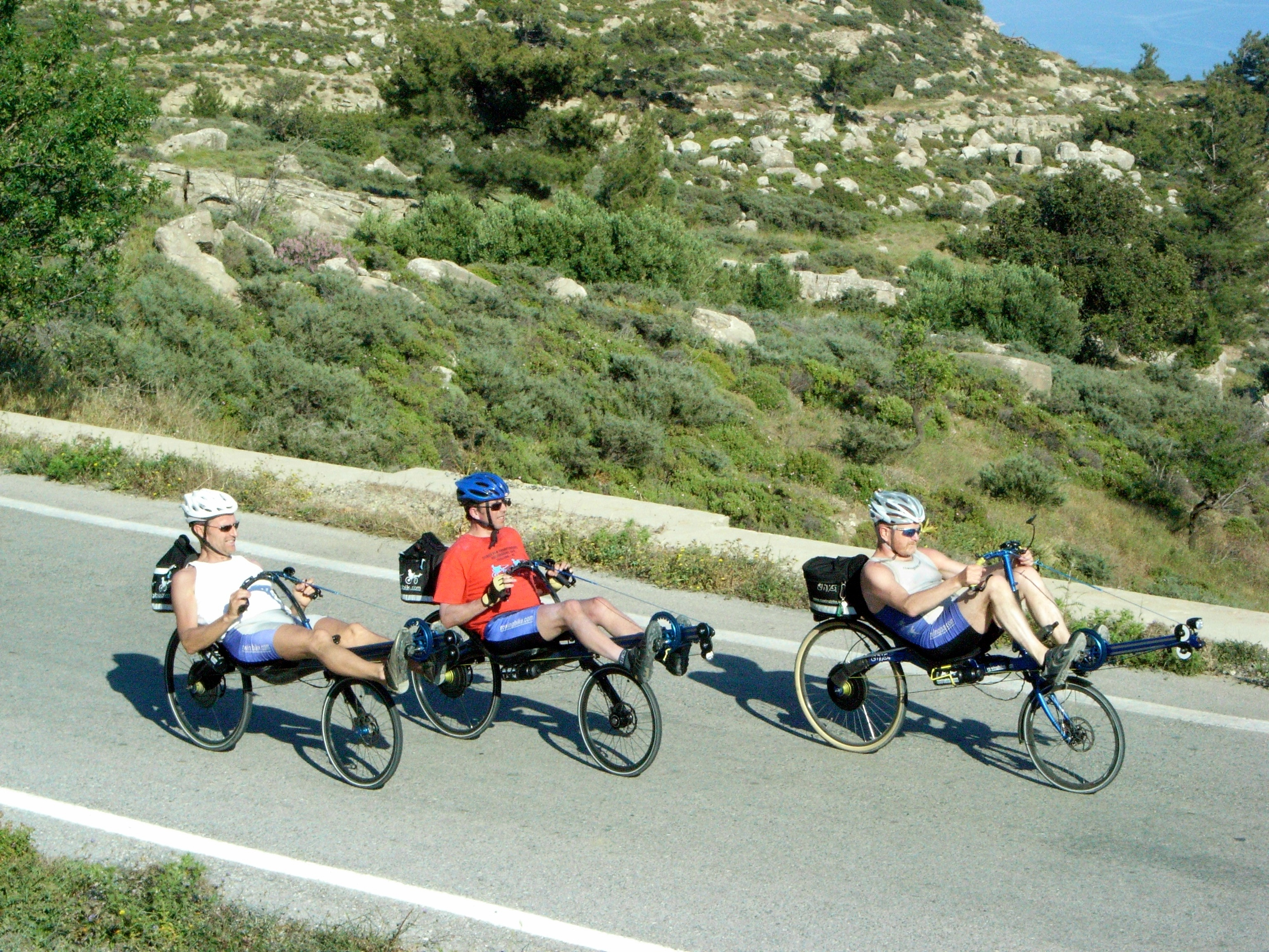 Rowing bikes